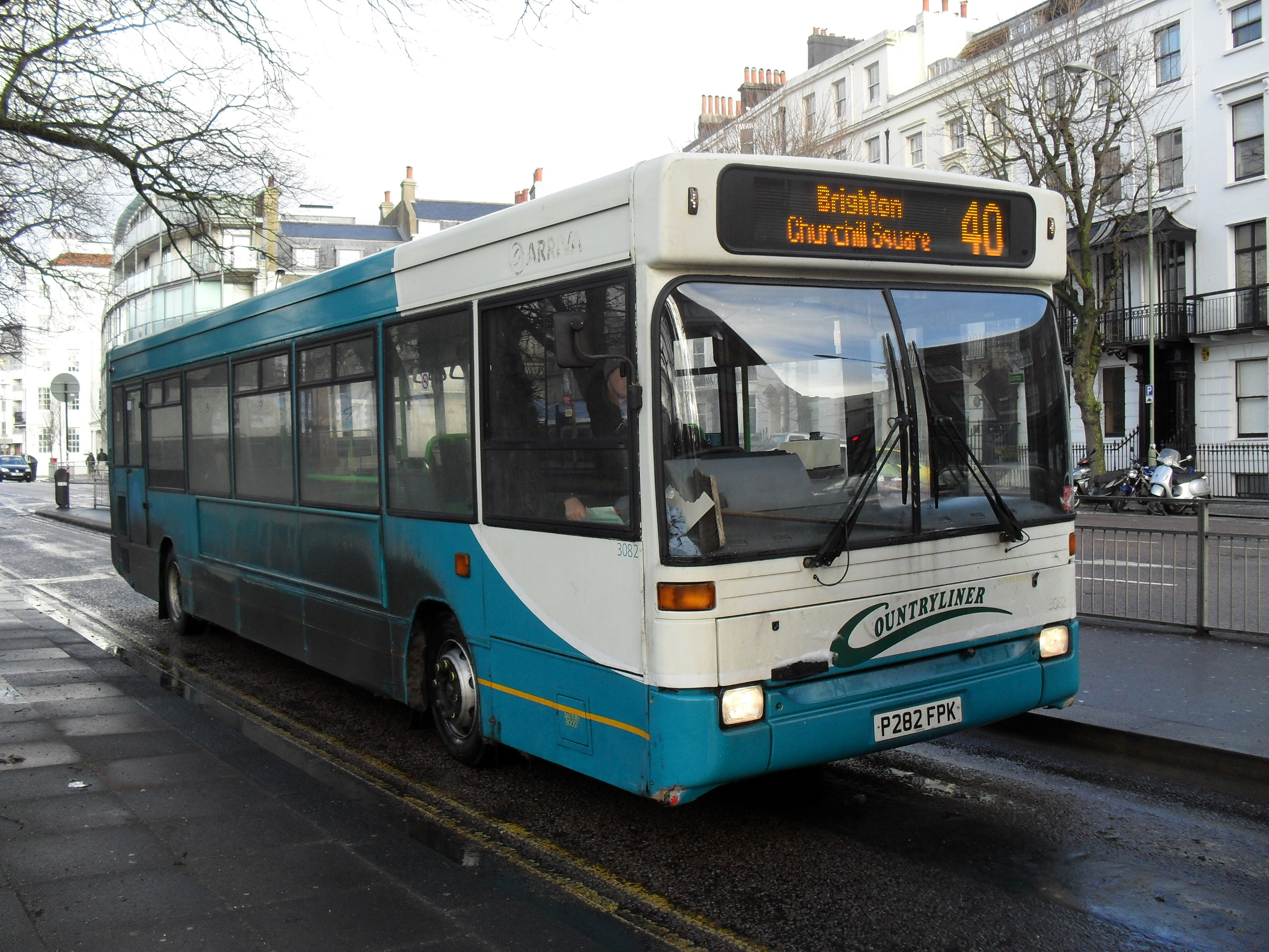 P282 FPK has the Countryliner logo but has not been repainted from its old Arriva livery. Part of an Arriva transfer can still be seen above the driver's window. On 18th December 2010, the bus is operating a route #40 Haywards Heath-Brighton service.